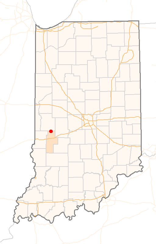 Red Dot map of Indiana, showing the location of Carbon